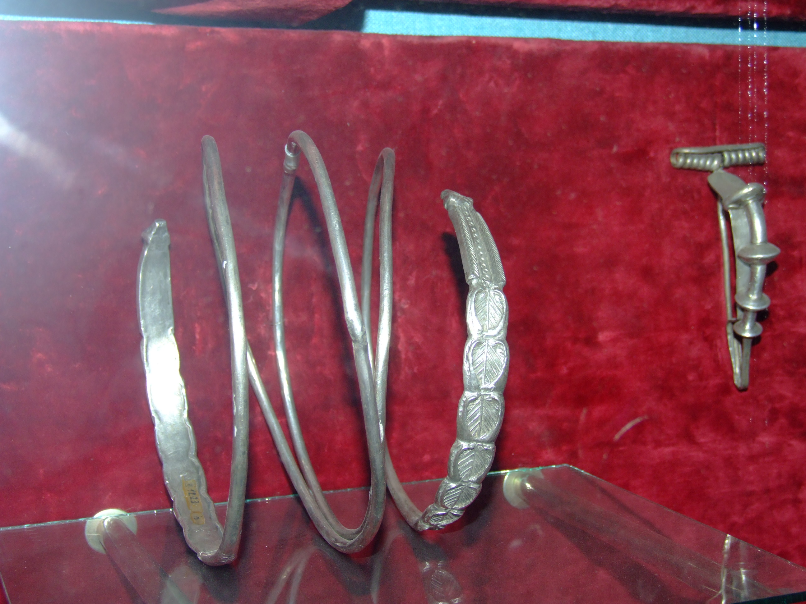 Dacian silver bracelet at National Museum of Transylvanian History. It is dated 1st century BC. the Geto-Dacian La Tene. Silver 358 grams. Flattened end decorated with palmettes. Palmettes with fir-tree motif and incized circles. The zoomorphic head probably depicts a snake head.